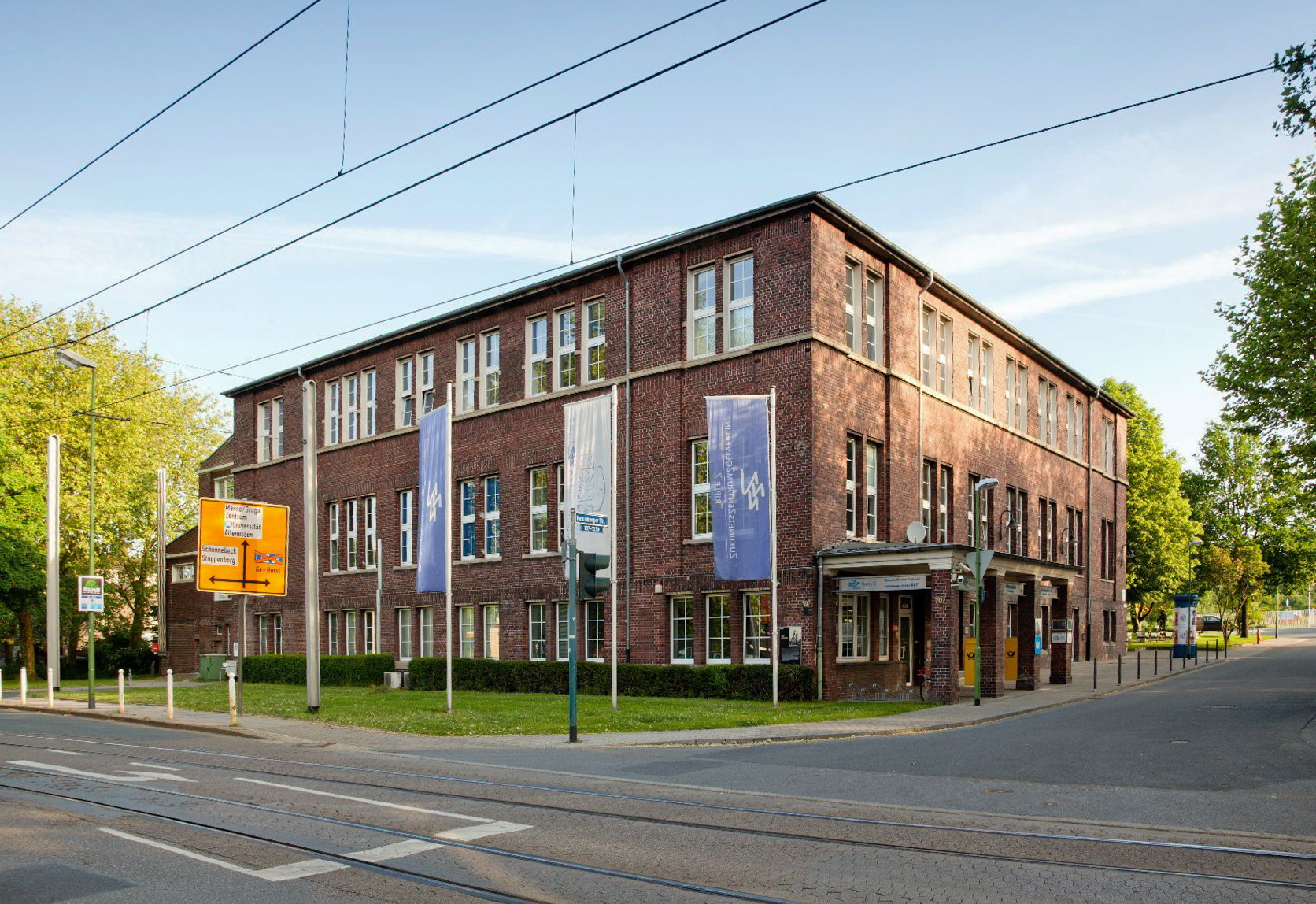 Administrative building Triple Z AG (2013)